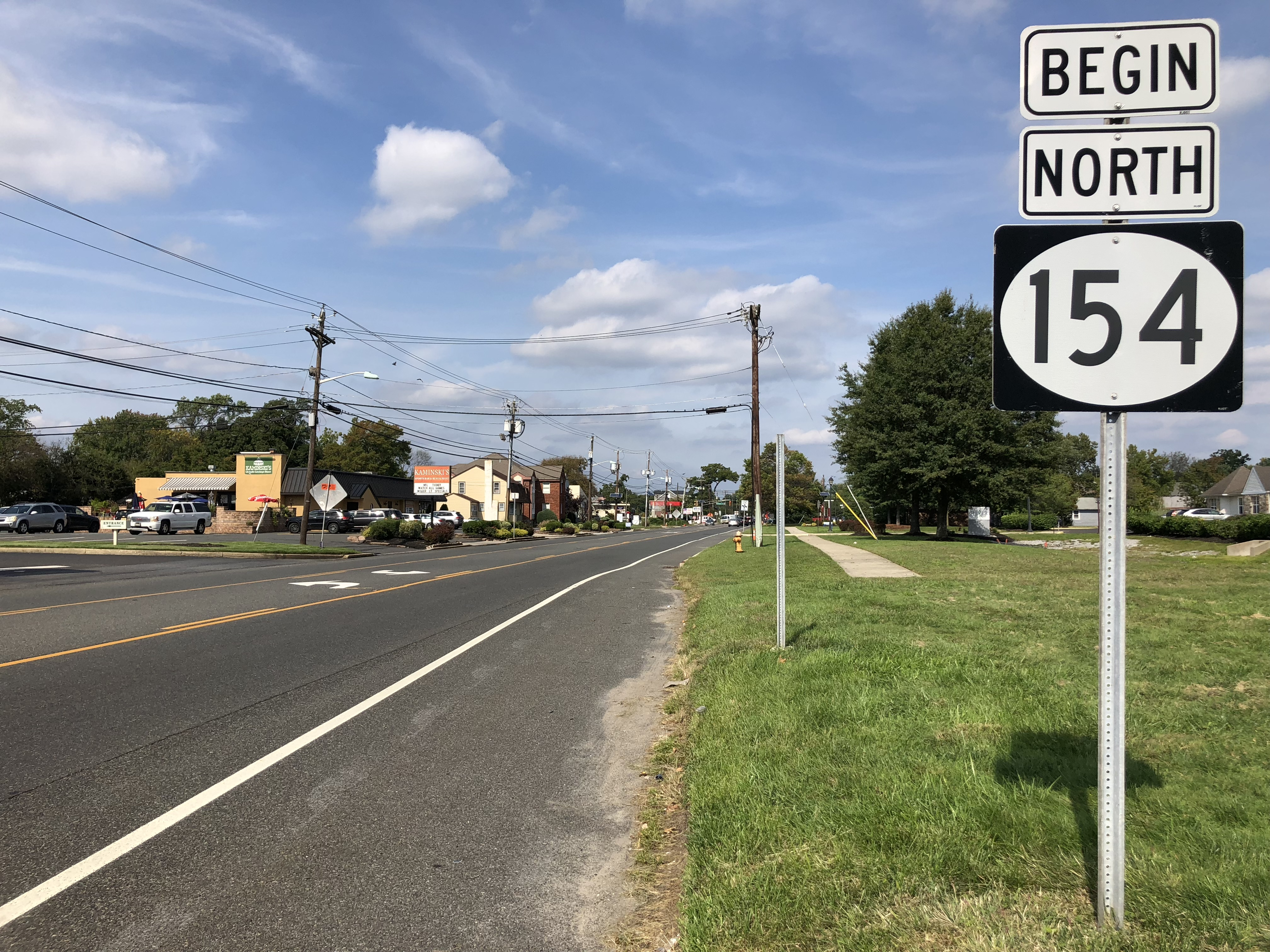 View north along New Jersey State Route 154 (Brace Road) just north of Arbor Avenue in Cherry Hill Township, Camden County, New Jersey